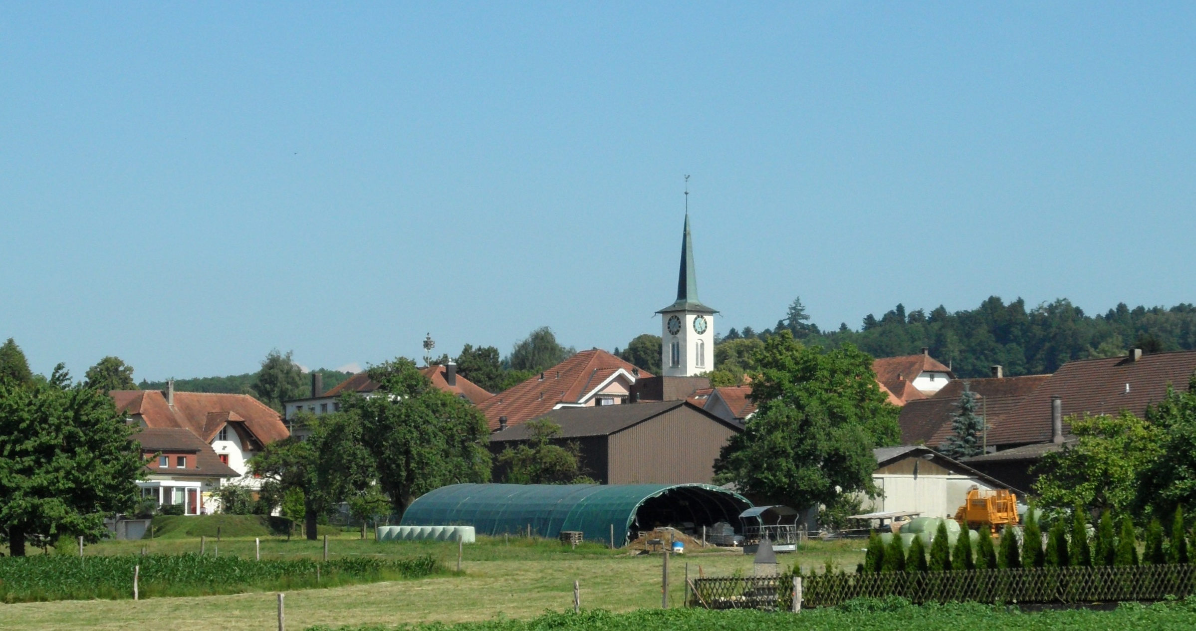 View of the village of Diessbach bei Büren, Canton of Bern, Switzerland.